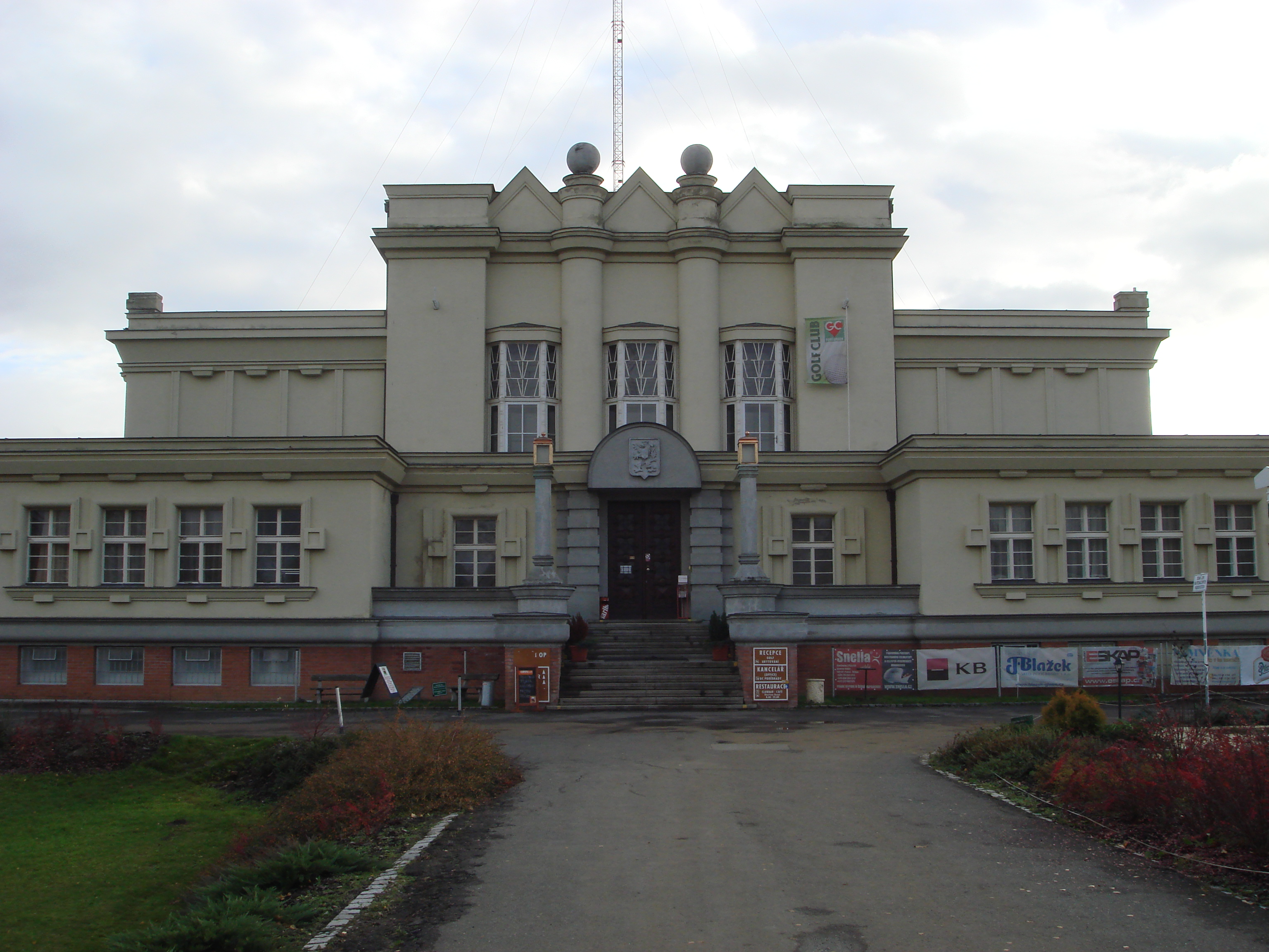 Radiostation in Poděbrady (Central Bohemian Region, Czech Republic).